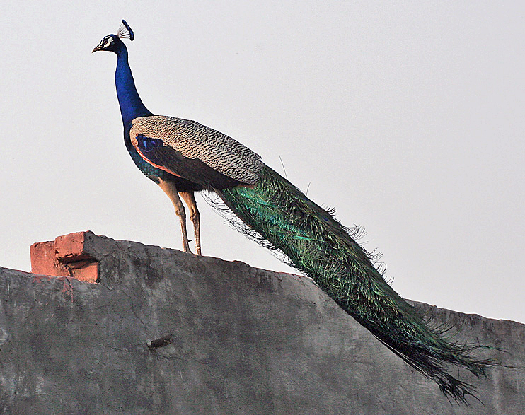 Indian Peafowl (Pavo cristatus) near Hodal in Faridabad District of Haryana, India.